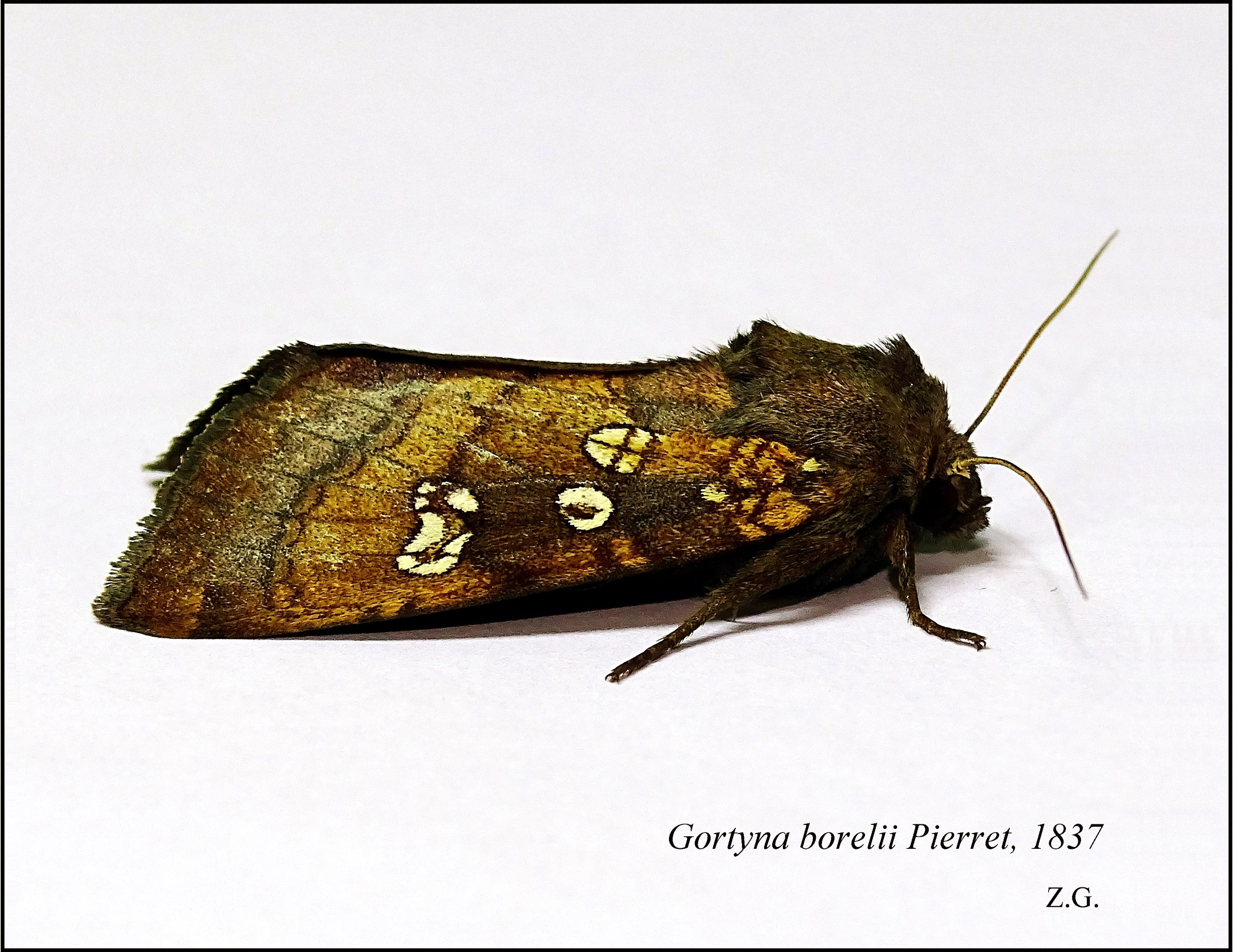 Moth Gortyna borelii caught and photographed near Vatin, Vršac municipality in Vojvodina's Banat region.